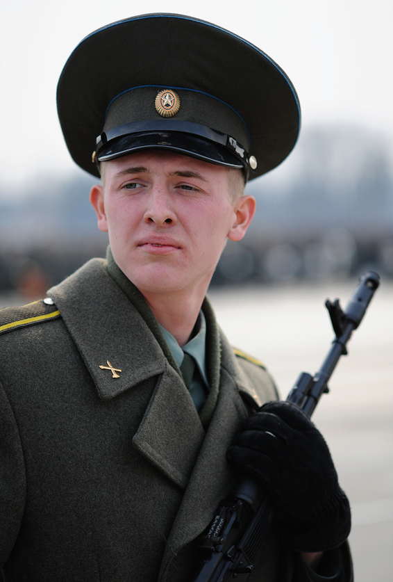 Kursant of the Russian Army.